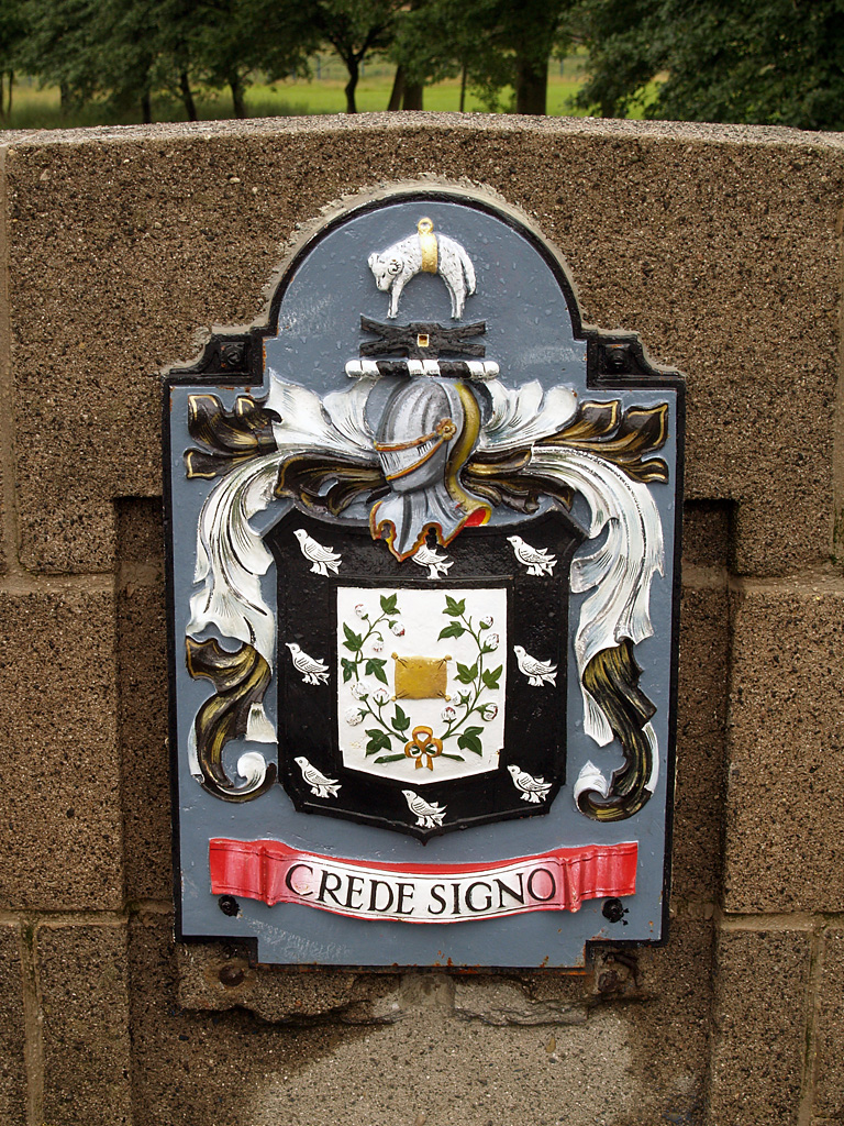 County Borough of Rochdale coat of arms on the bridge that carries Albert Royds Street over the River Roch. Monday 7th July 2008